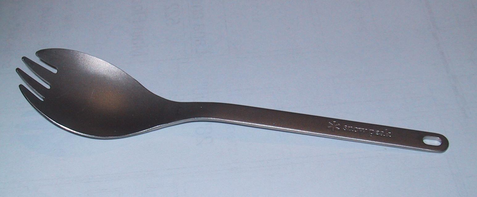 A titanium spork, useful for backpackers. about 160 mm (6 1/4 inches) long overall, mass 16 grams ( just over 1/2 ounce).